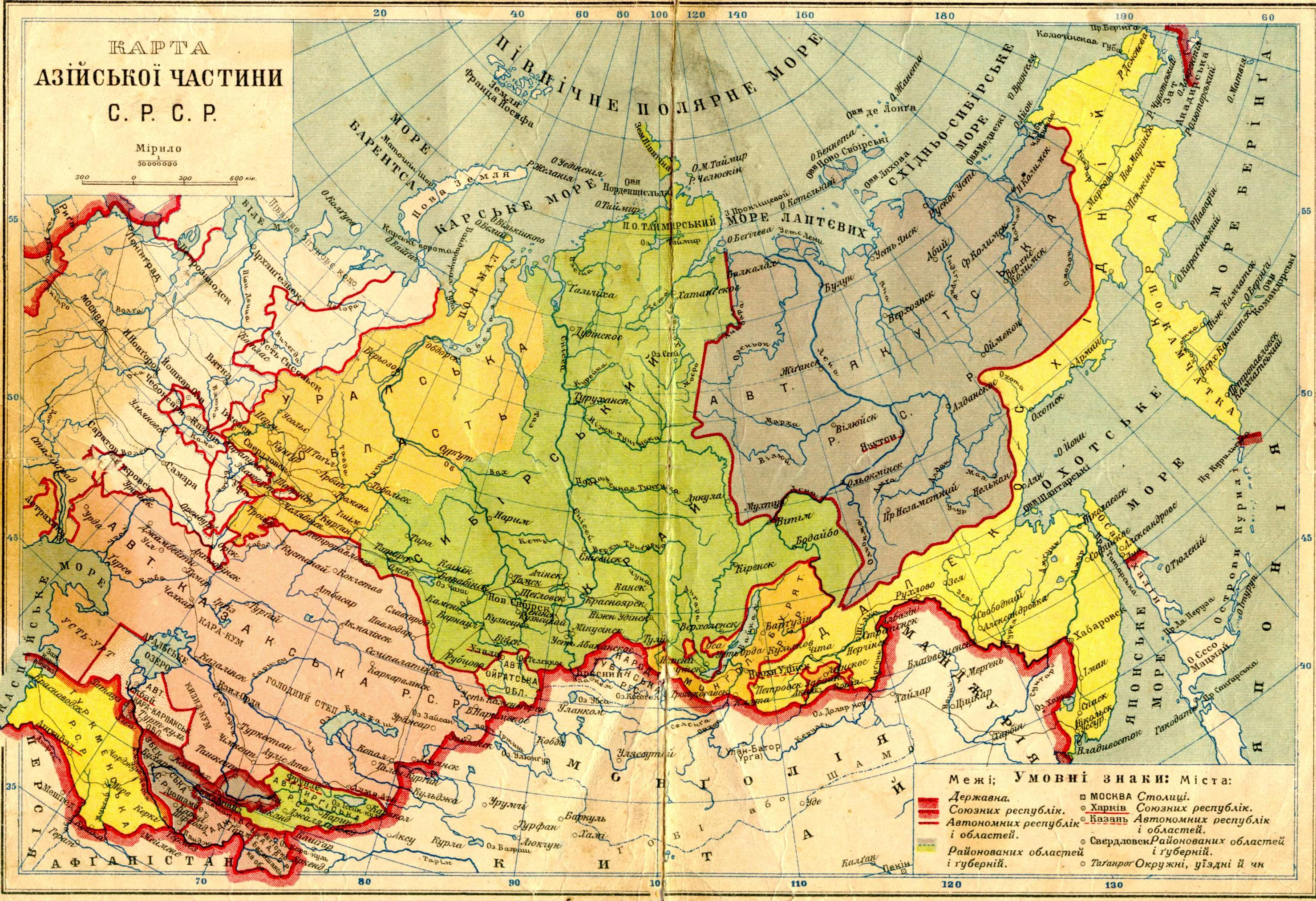 Map of the Asian part of the USSR in 1929.